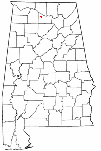 Dot map of Burningtree Mountain, Alabama subdivision of Decatur, Alabama.